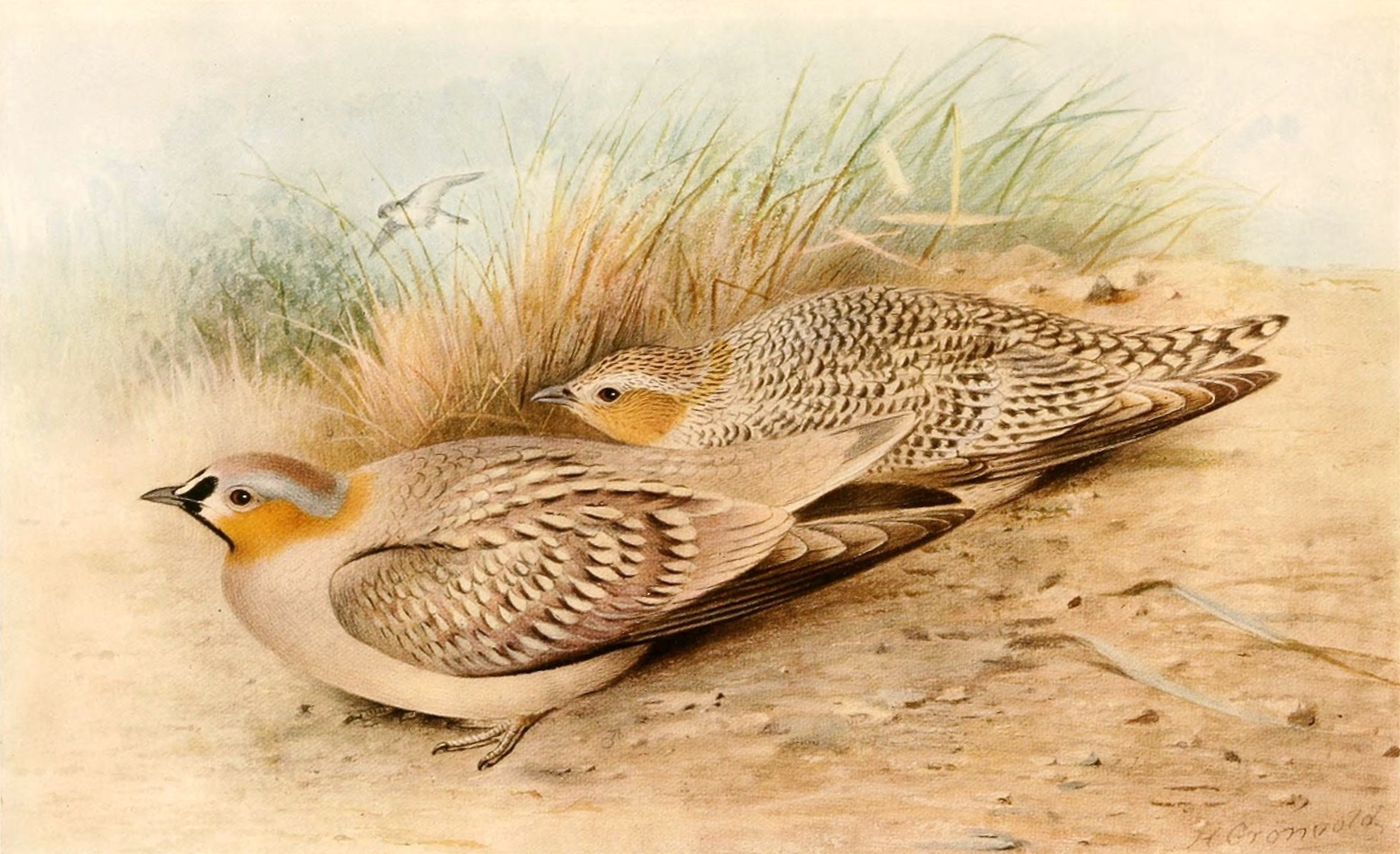 The Coronetted Sand-grouse Pterocles coronatus atratus = Pterocles coronatus atratus (Subspecies of Crowned Sandgrouse)